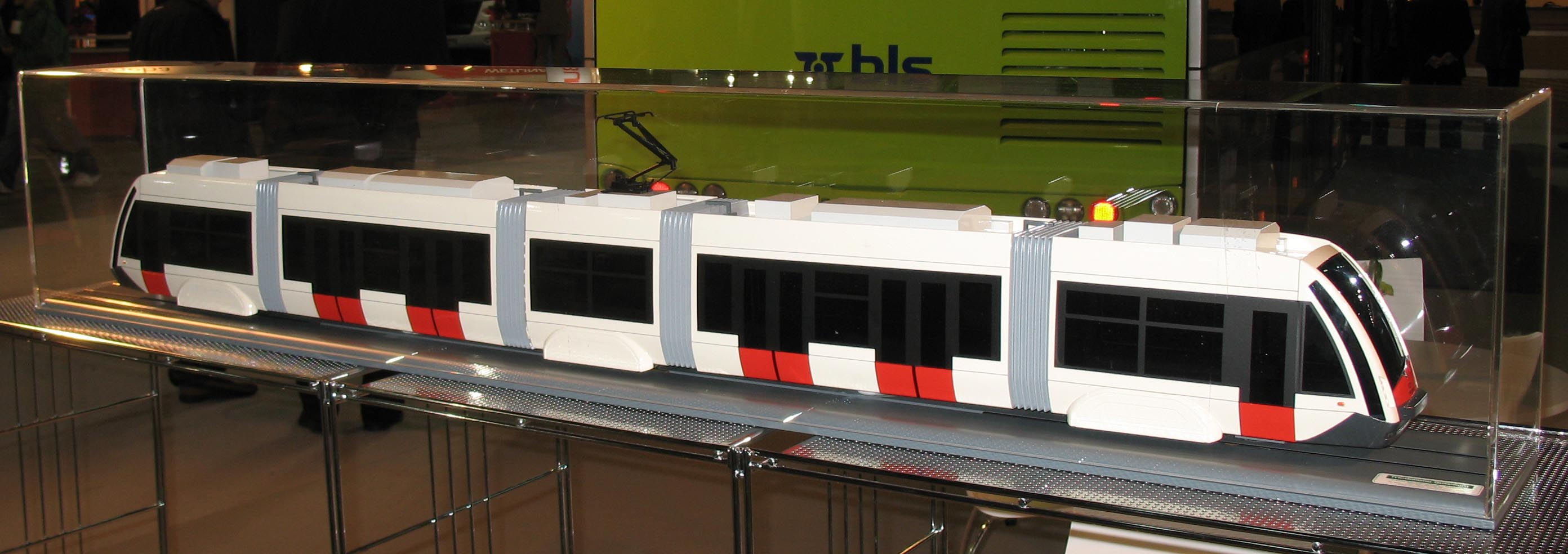 Solaris Tramino tram model in Kielce, Poland. Transexpo 2008 exhibition.